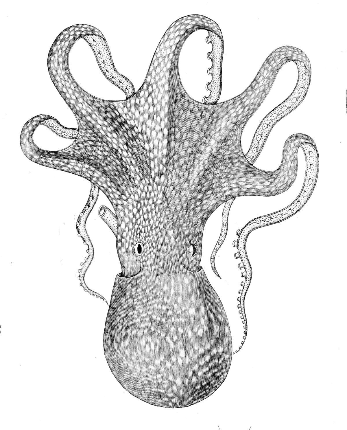 Eledone moschata